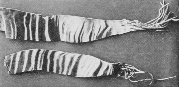 Text: "Photograph of the two "bandoliers" cut from the striped part of the skin of an Okapi, which, when sent home by Sir Harry Johnston, were at first thought to have been cut fron the skin of a new kind of zebra."